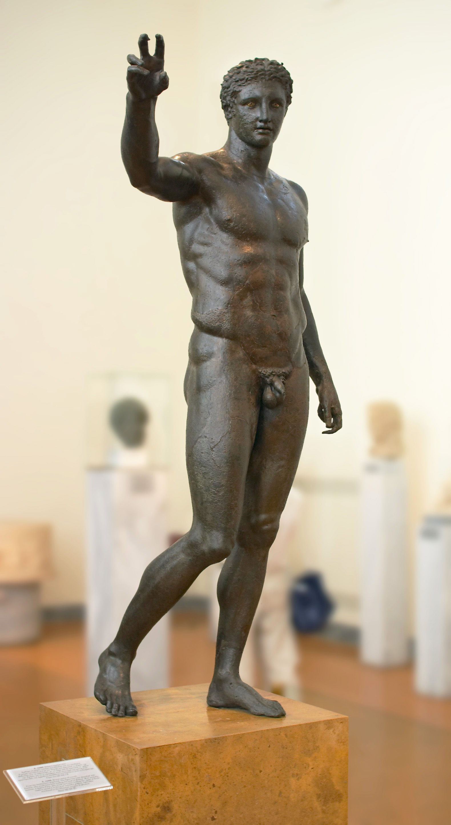 Bronze Sculpture, thought to be either Paris or Perseus (Paris is more probable), circa 340-330 BC, National Archaeological Museum, Athens. Comes from the Antikythera shipwreck. Attributed to Euphranor.